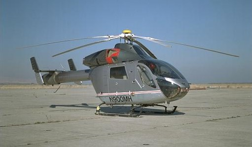 MD-900 (N900MH) Helicopter Noise Abatement Test - Crows Landing